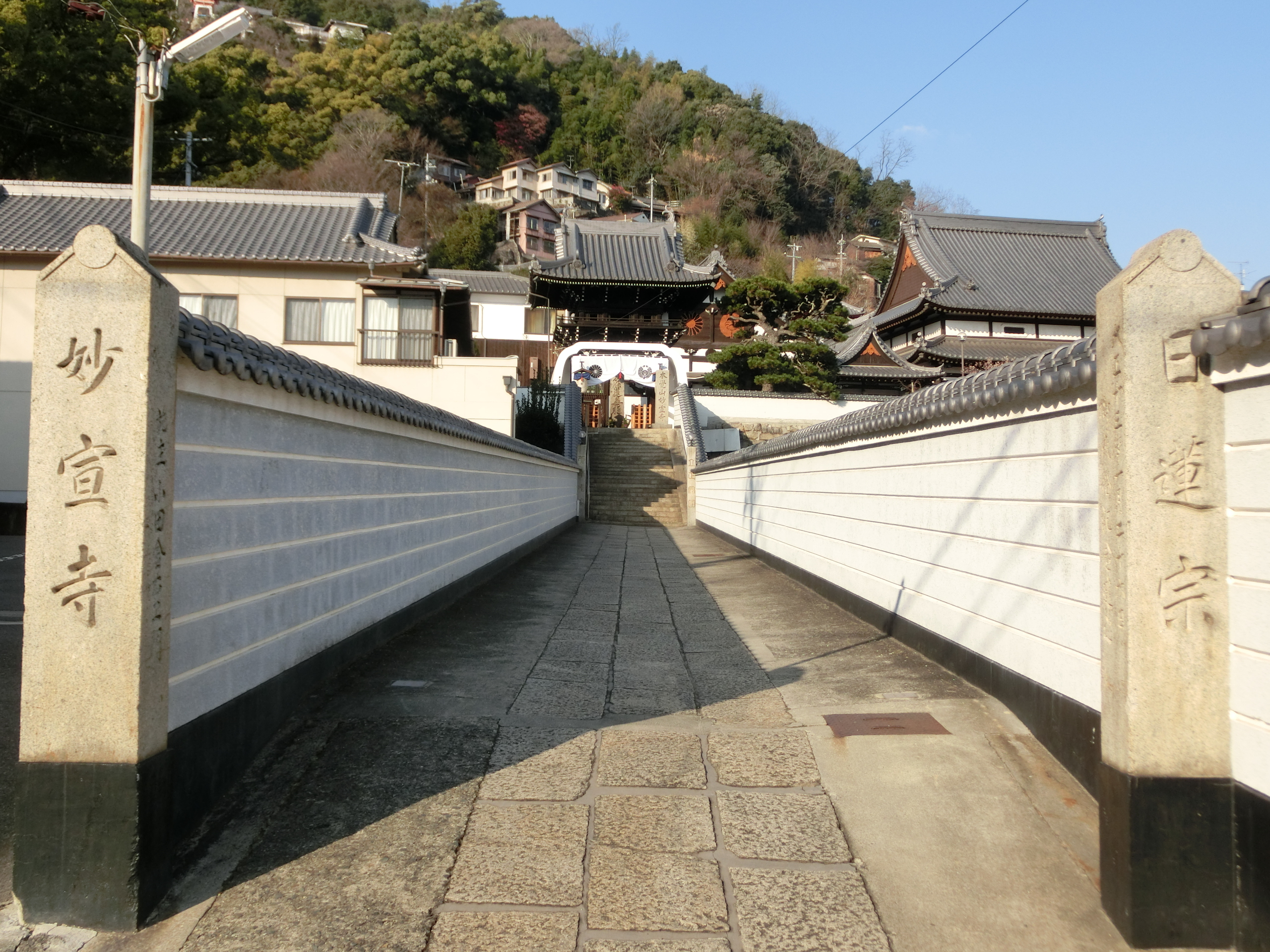 Myosen-ji (Onomichi)